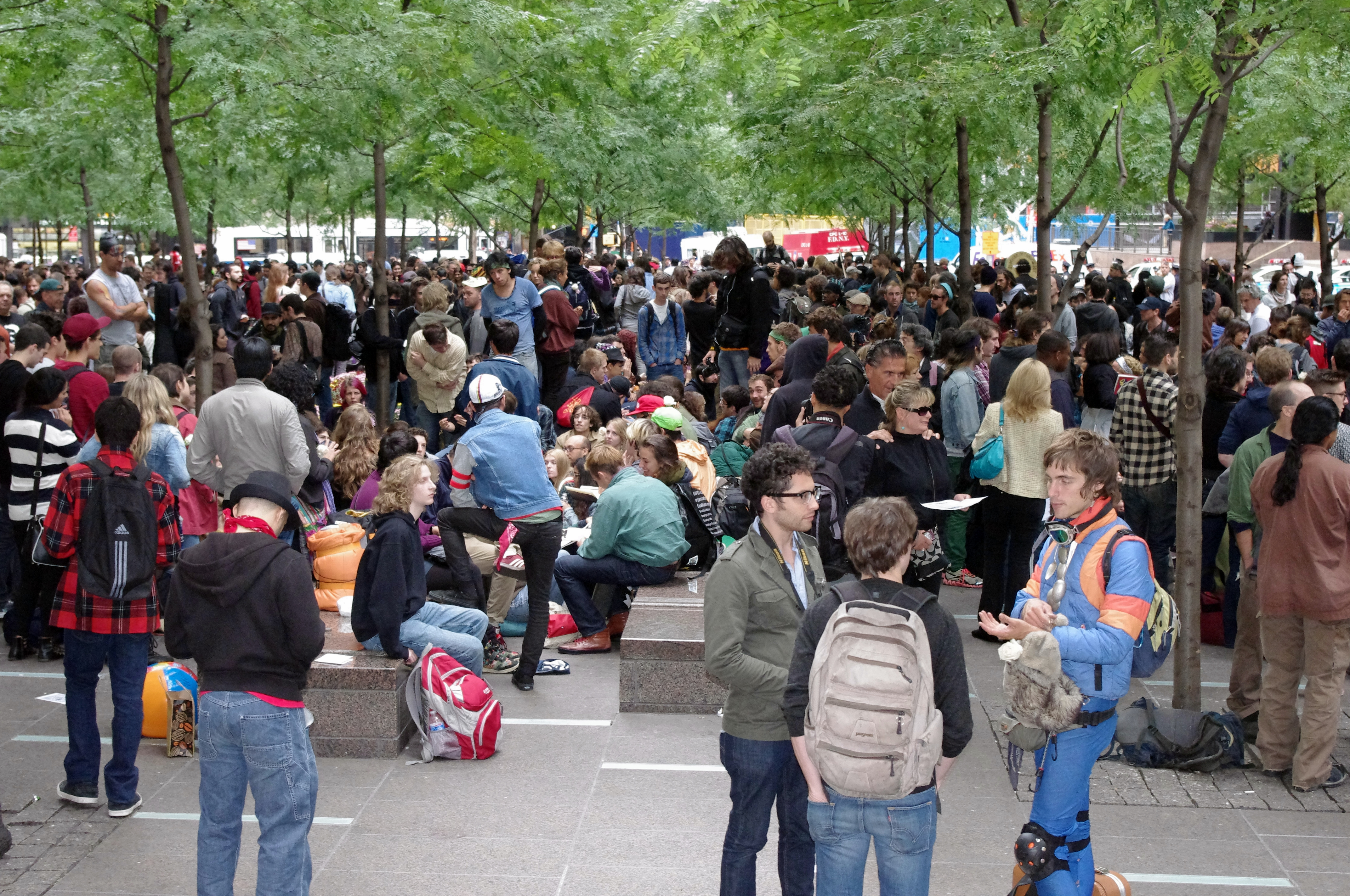 Occupy Wall Street protesters have taken over Zuccotti Park as a base of operations.